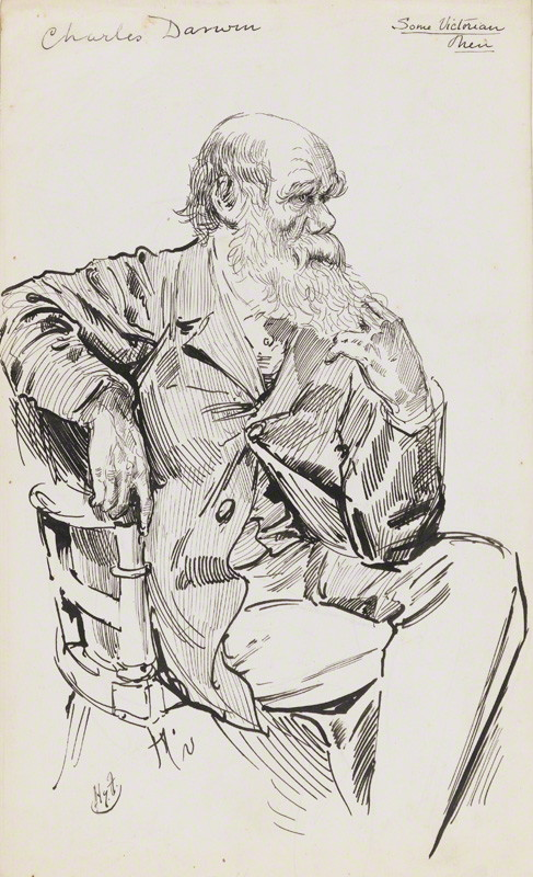 A pen and ink caricature of Charles Darwin by artist Harry Furniss